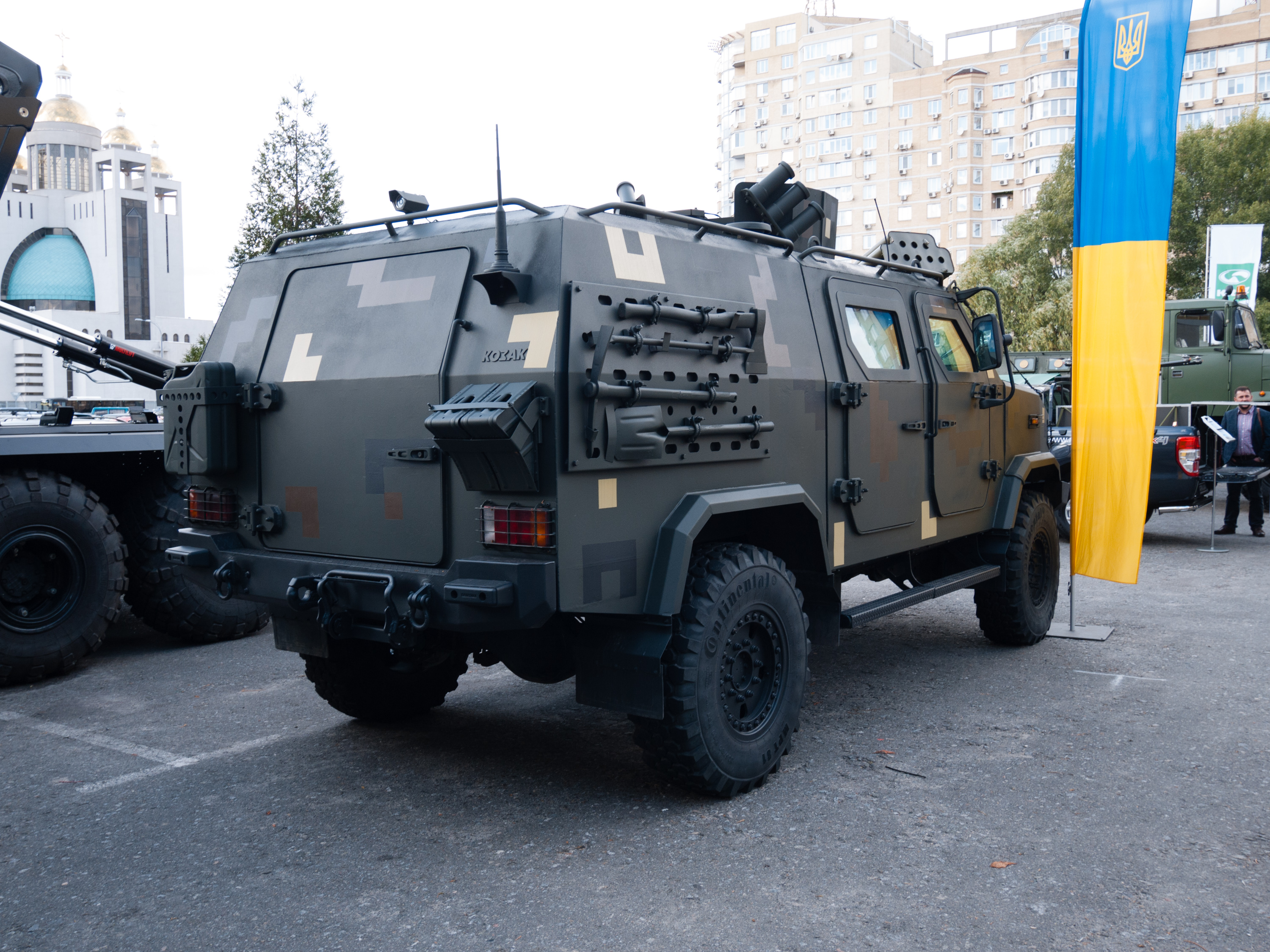 Kozak-5 armored vehicle (Ukraine)